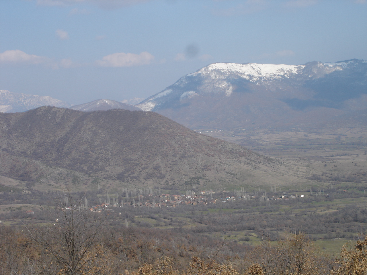 village of Doglaec, Dolneni Municipality, Macedonia